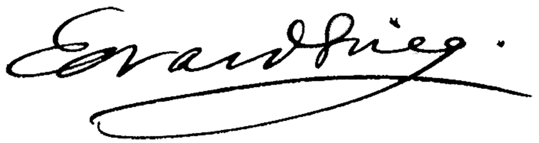 The signature of composer Edvard Grieg